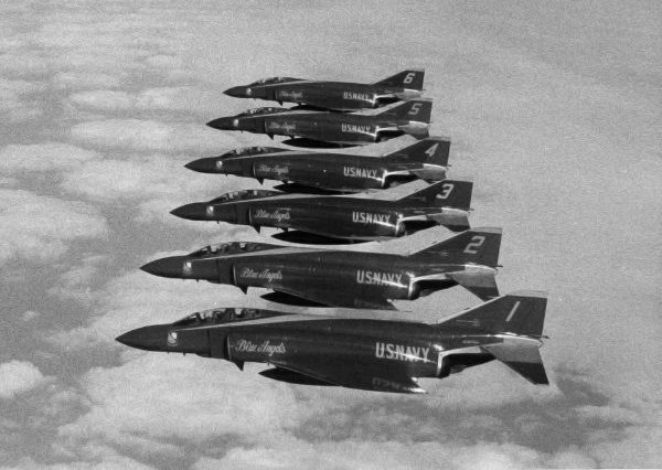 McDonnell Douglas F-4J Phantom II fighters of the U.S. Navy Blue Angels flight demonstration team fly cross-country between show sites in a line abreast formation in 1970 or 1971.